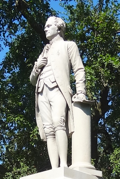 Statue of Alexander Hamilton in Central Park, close up view